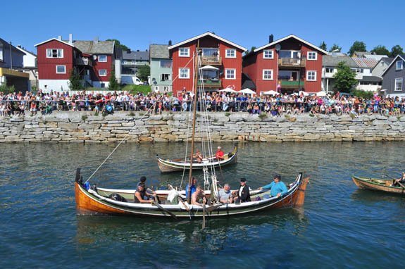 Foto: Tore M Furuhatt